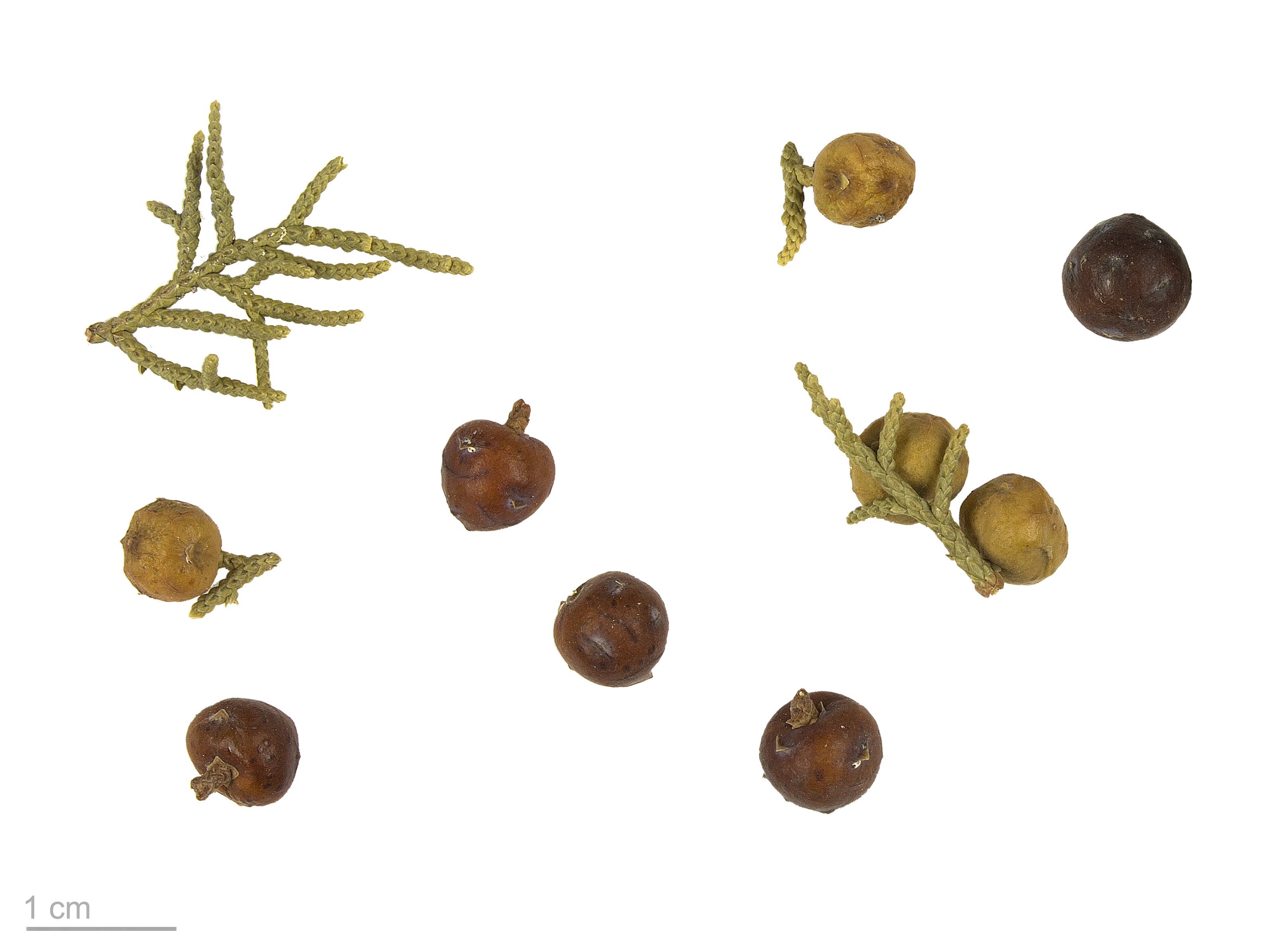 Phoenicean Juniper, cones and seeds